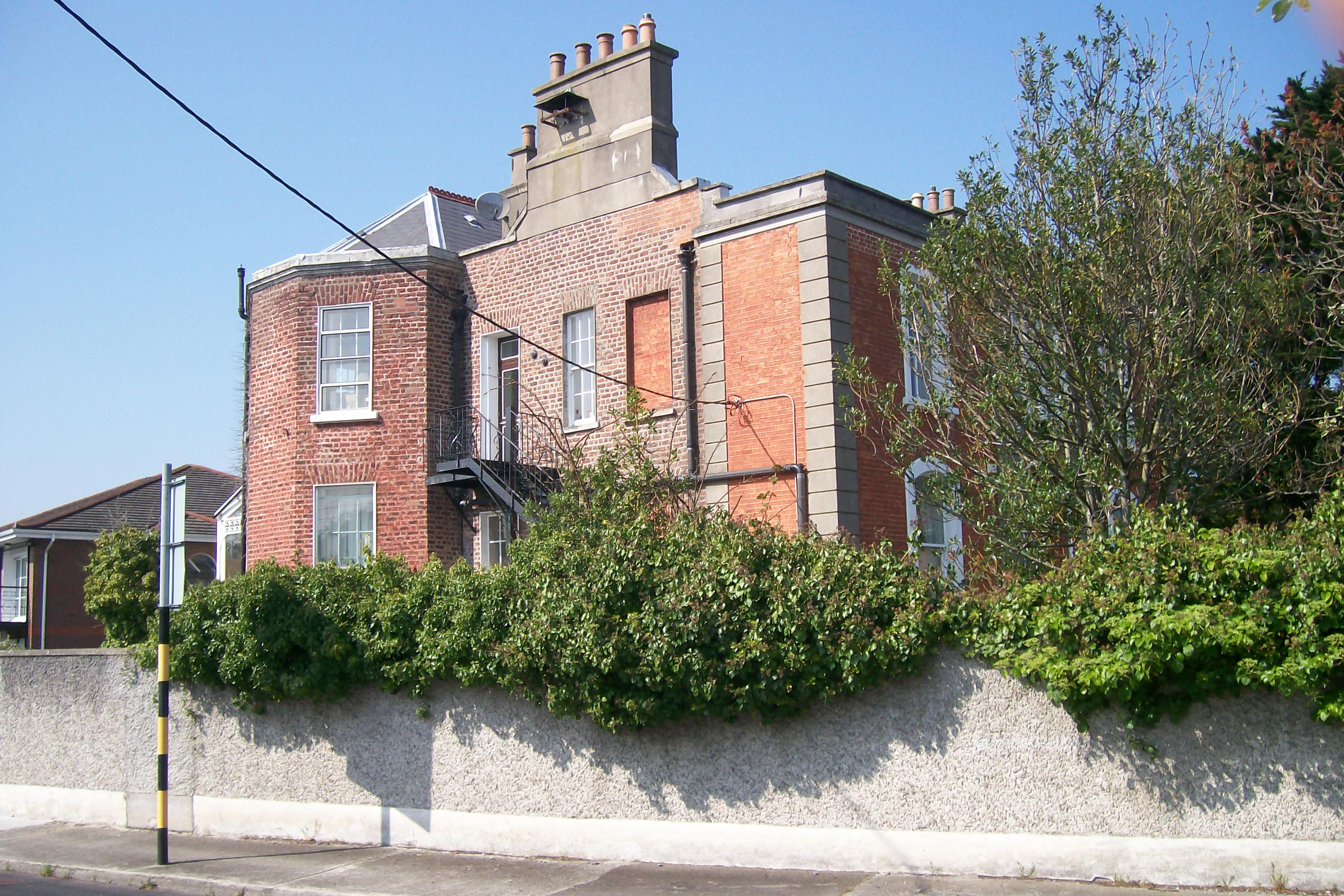 Roebuck House in Clonskeagh, Dublin